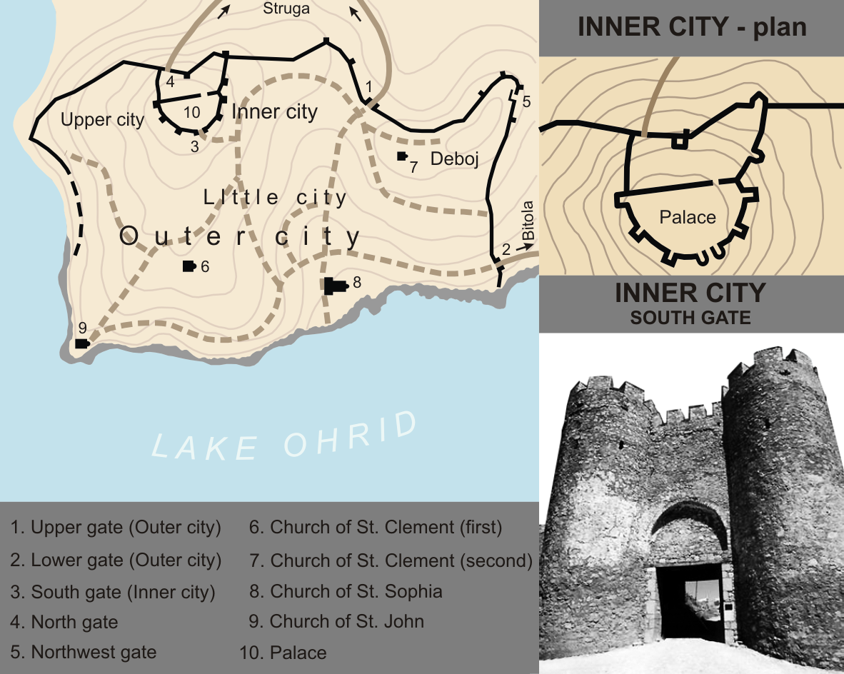 Map of the Samuil's Fortress in Ohrid, the last capital of the First Bulgarian Empire.